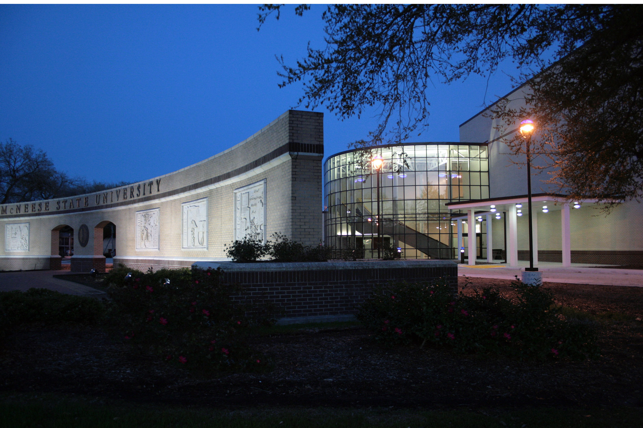 The new Shearman Fine Arts building and the entrance plaza